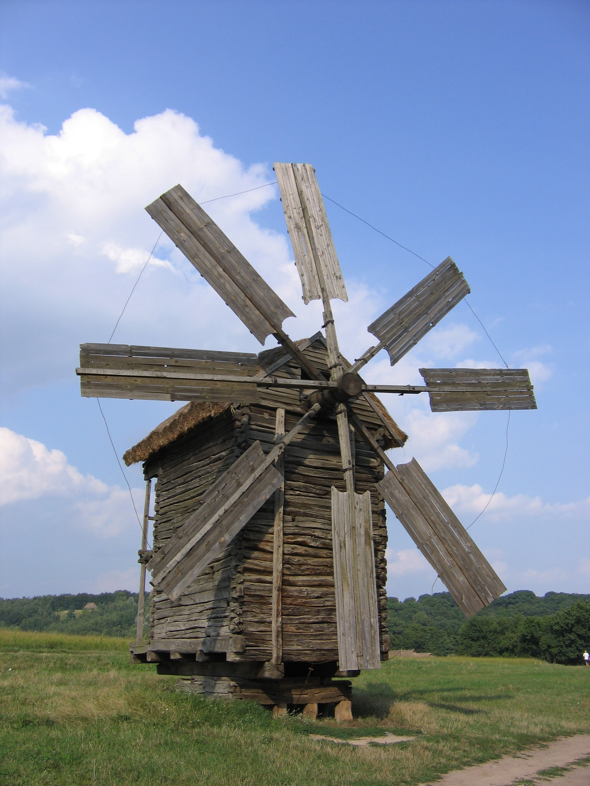 Museum of Ukrainian Folk Architecture and Ethnography in Pyrohiv (near Kiev, Ukraine) Вітряк поч.20 ст. з с.Кудряве, Охтирський р-н, Сумська обл.